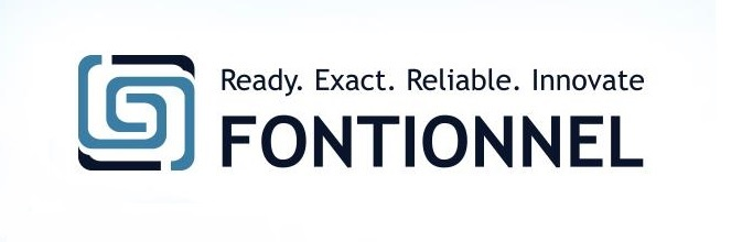 logo